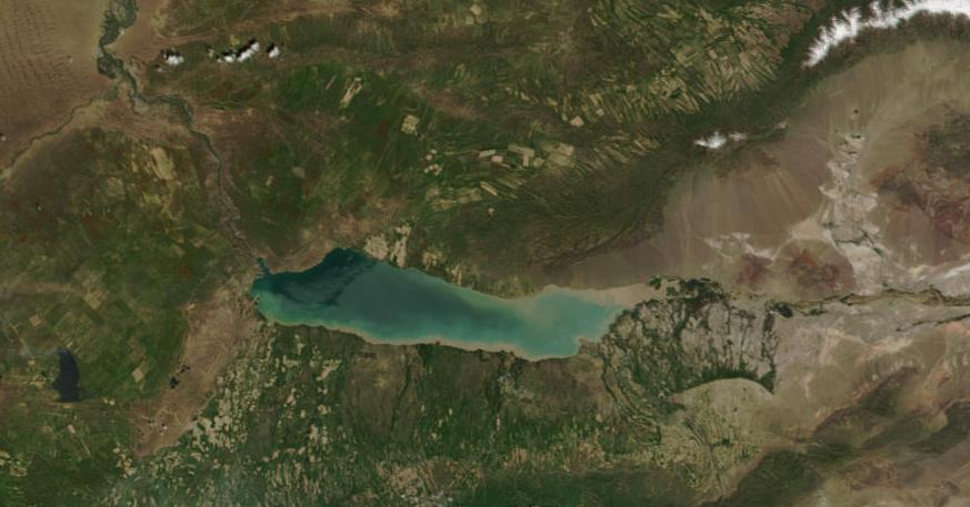 Kapchagay Reservoir